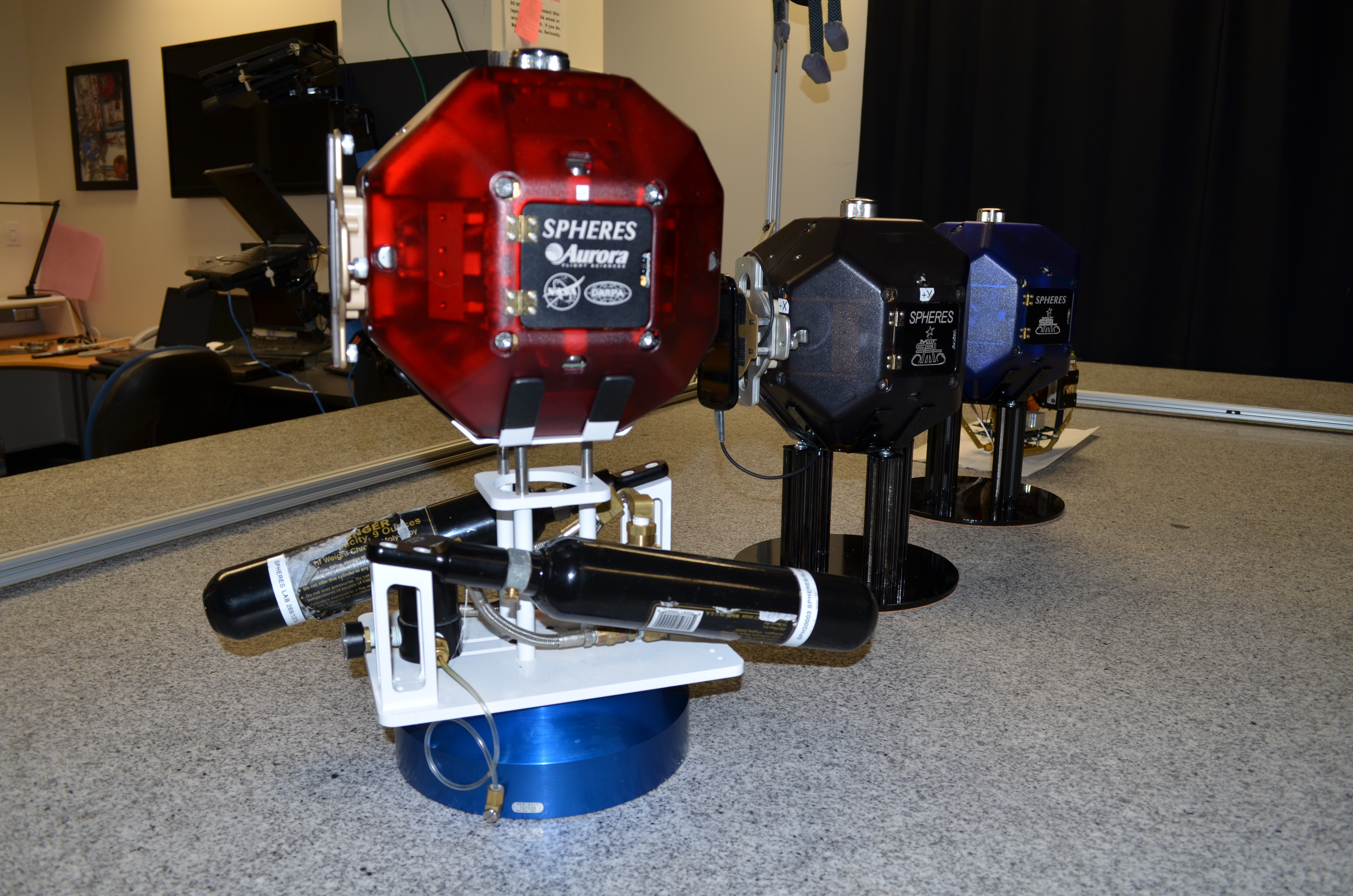 A SPHERES satellite is mounted on an air carriage at the 3 DoF laboratory. Visible are two liquid CO2 containers used by the air carriage.